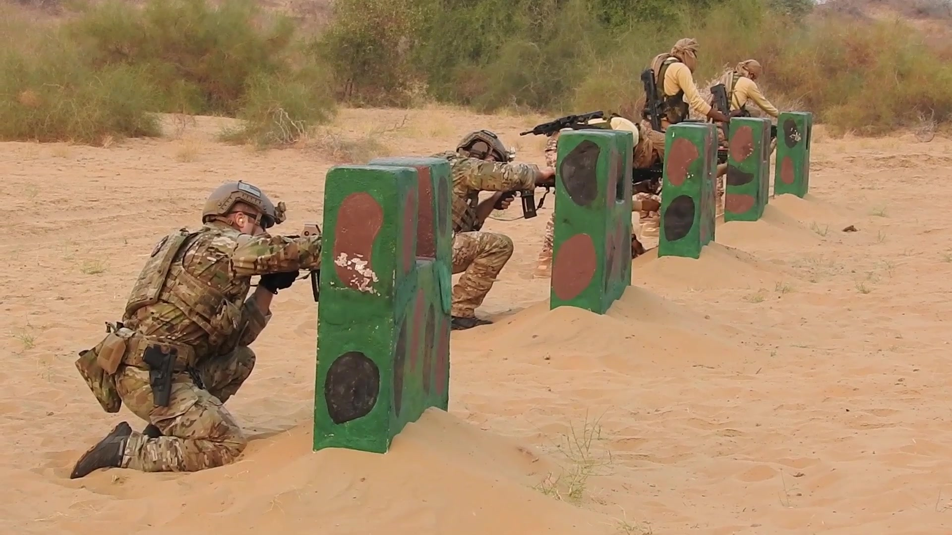 1st Special Forces Group (Airborne) Soldiers train with Indian Army Special Operation Forces during Vajra Prahar 2018. The joint combined exercise builds interoperability and comradeship between the two forces and is designed to enhance the capabilities of both Indian and U.S. armed forces.